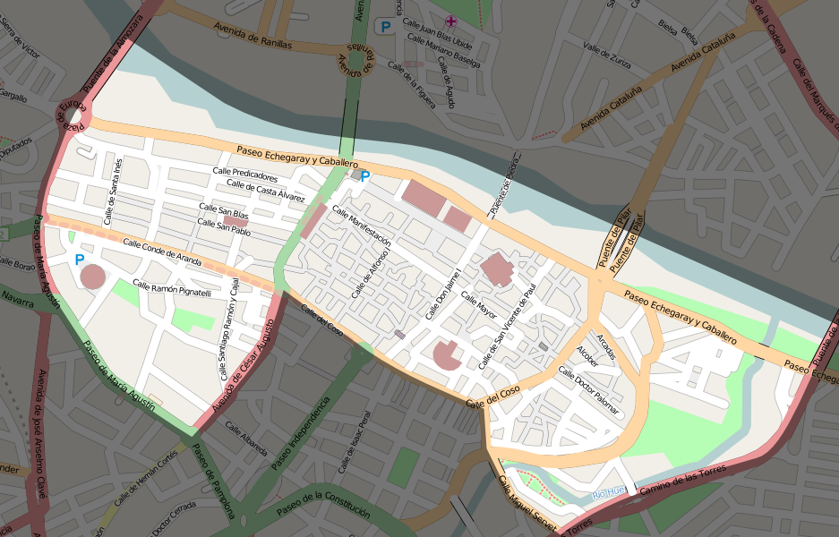 This map may be incomplete, and may contain errors. Don't rely solely on it for navigation.